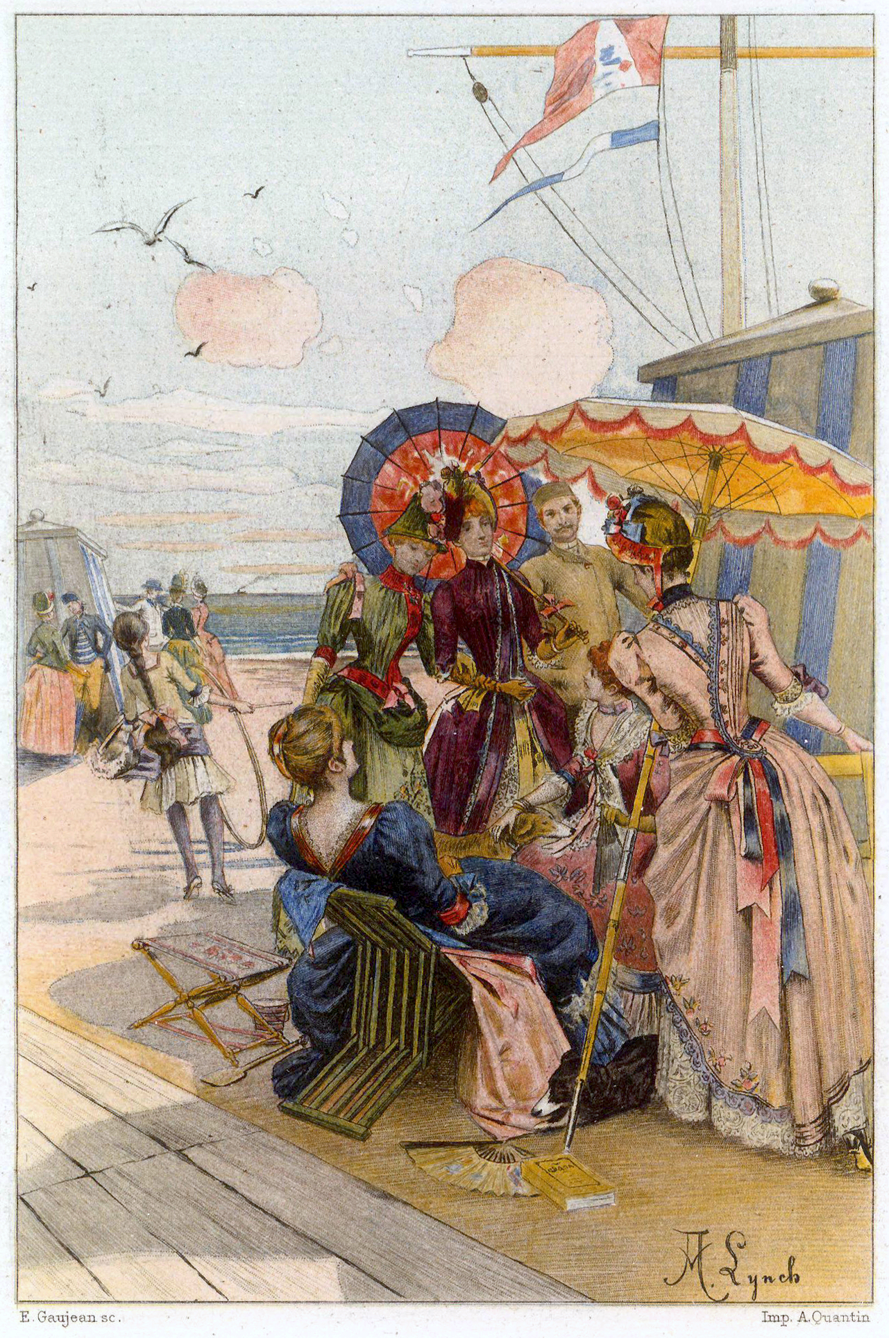 Five women, each in a different style of dress, relax together on a beach in Normandy.